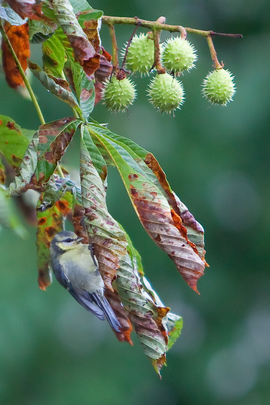 Horse-chestnut leaf miner larvaes eaten by Blue Tit